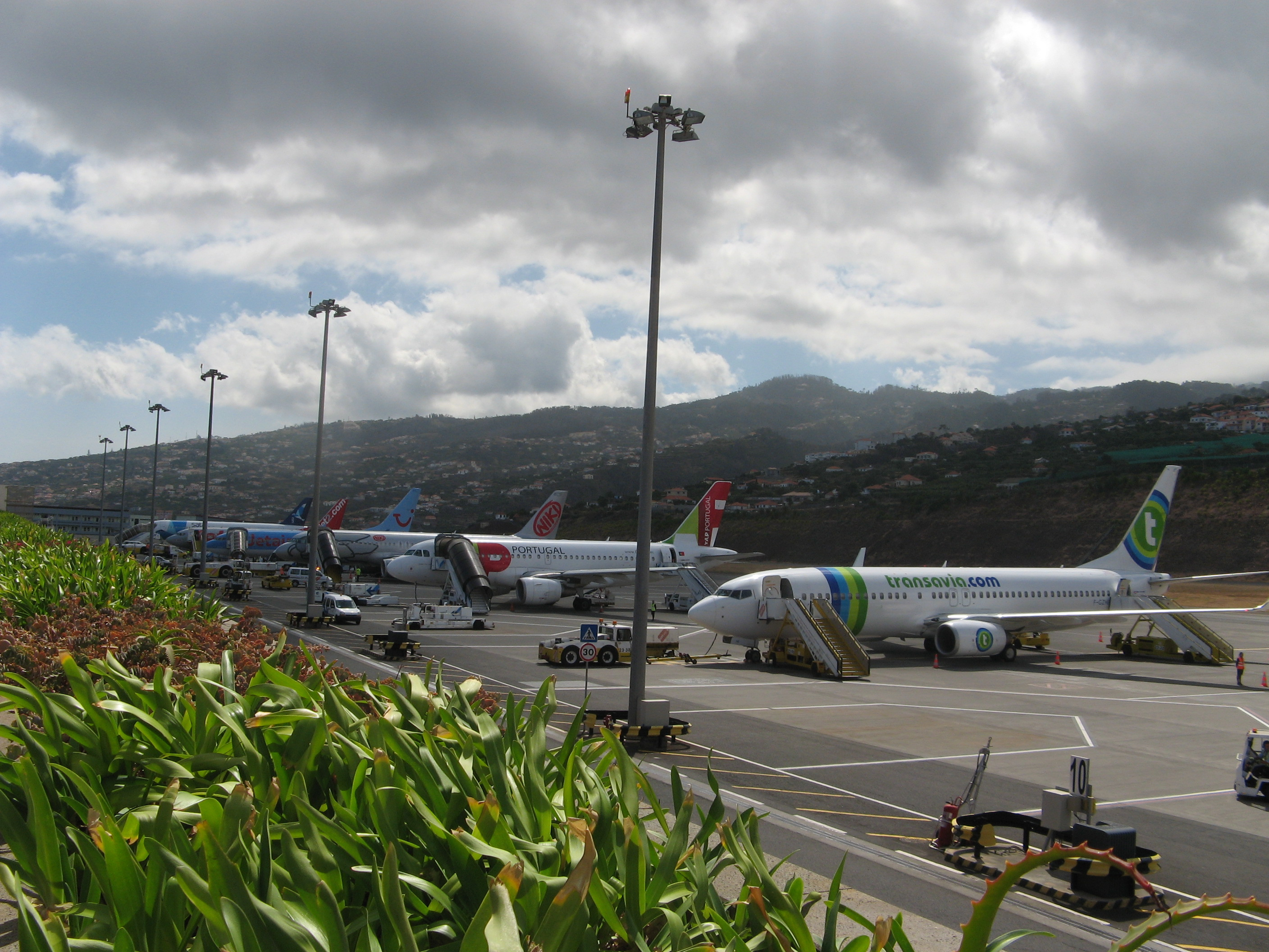 Planes on Madeira Airport